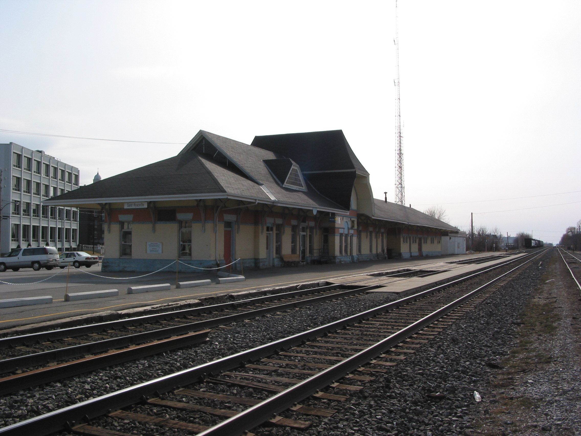 Via Rail's St-Hyacinthe train station